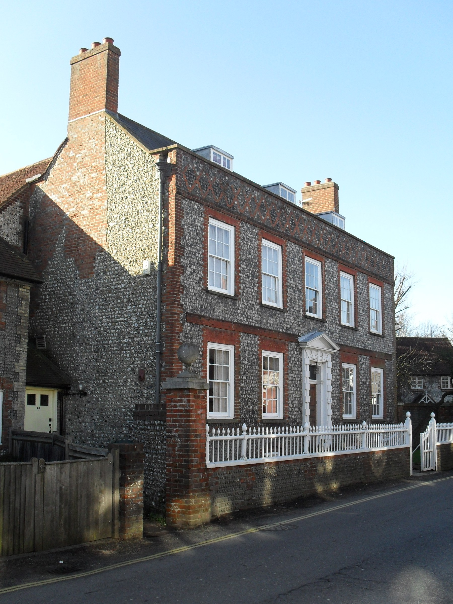 Southdown House, Old London Road, Patcham, City of Brighton and Hove, England. Built in the 18th century. Listed at Grade II* by English Heritage (IoE Code 480954)